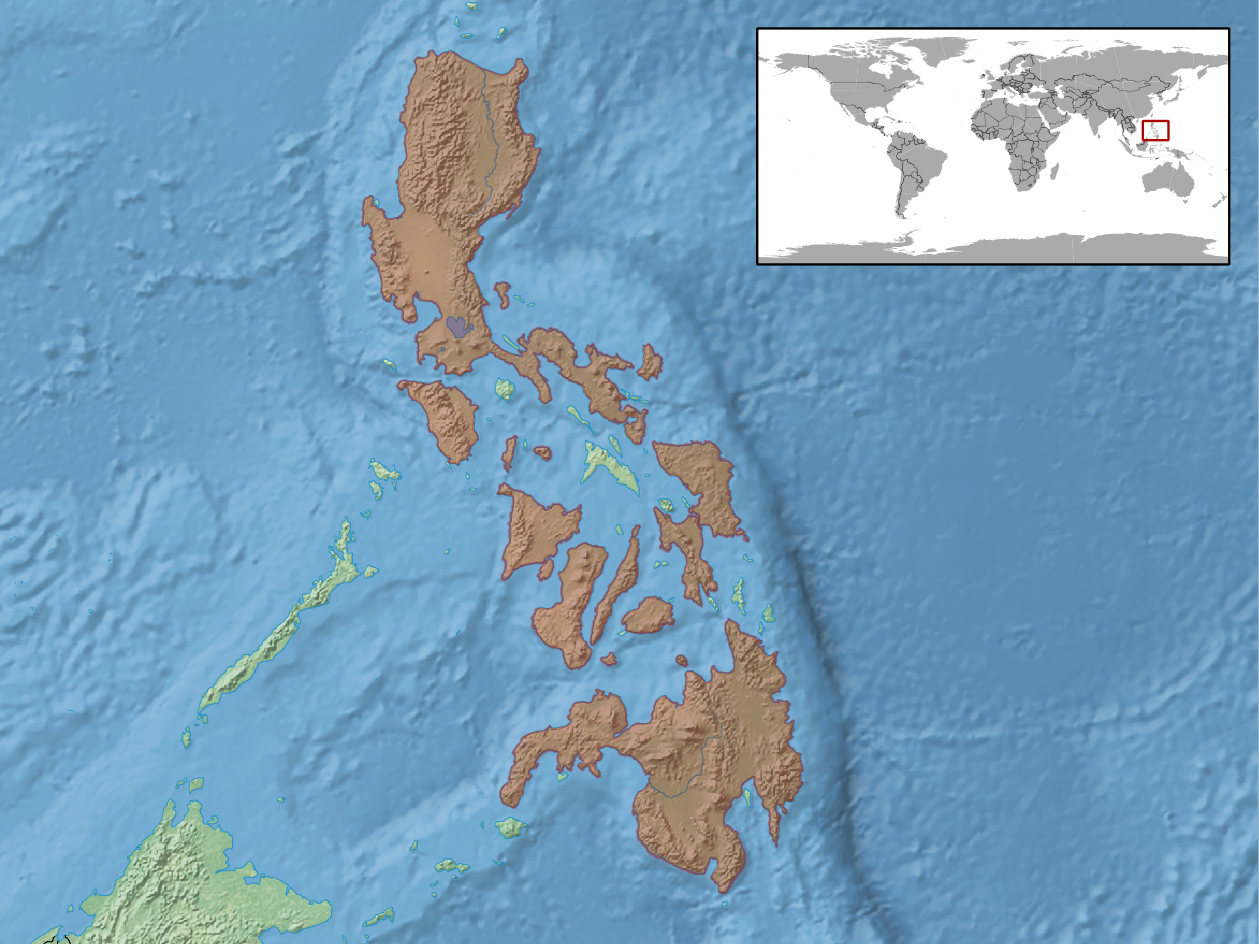 geographic distribution of Sphenomorphus steerei (IUCN) syn Parvoscincus steerei (RDB)